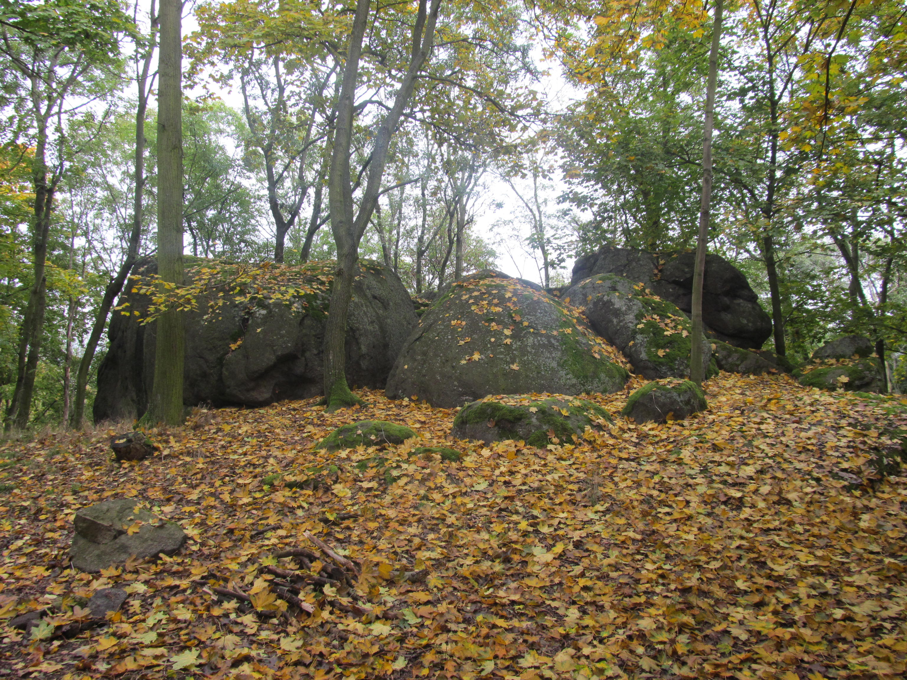 Top of the Hill fort in Bílenec